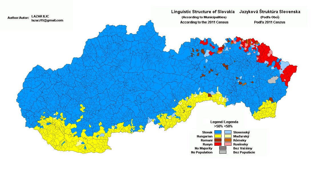 This is a Linguistic map of Slovakia. It is made with data according to the 2011 population census.